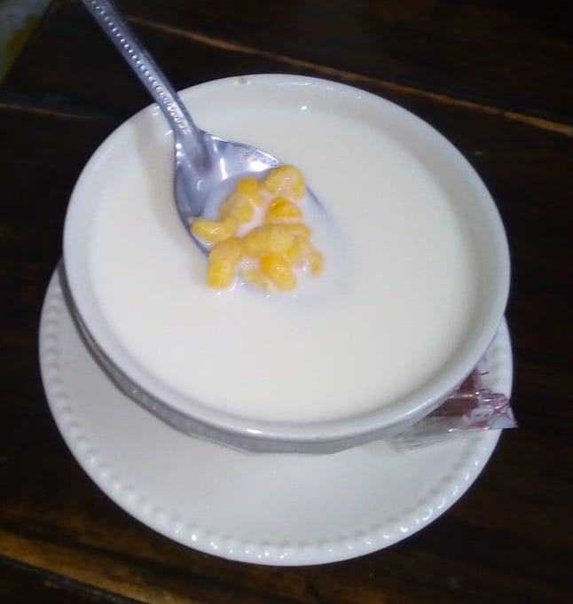 Mazamorra, Antioquia (Colombia) style, corn beverage